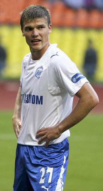 Igor Denisov